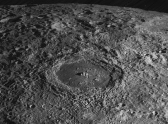 Oblique view of Compton, on the moon. Facing south.